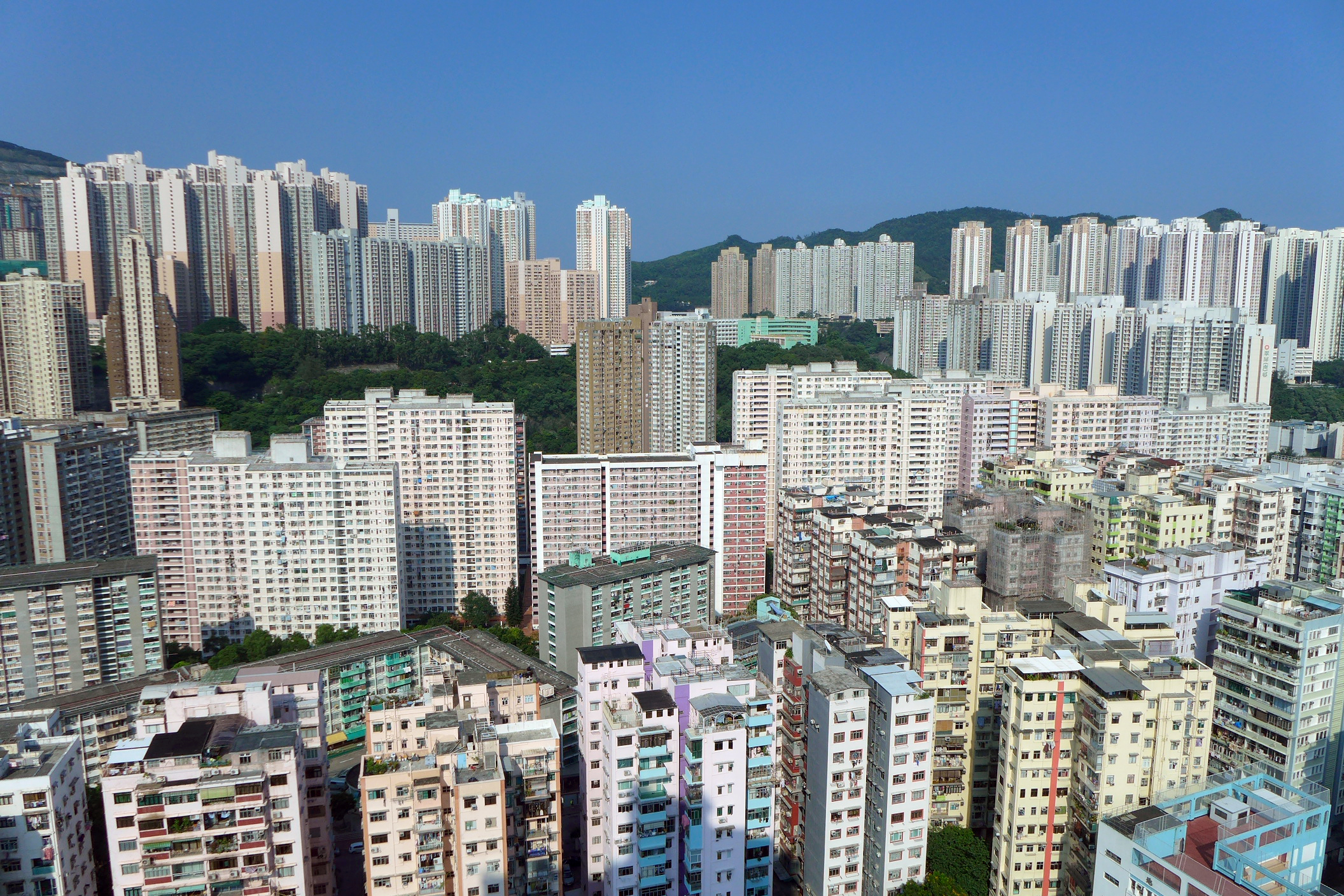 Tsui Ping North Estate